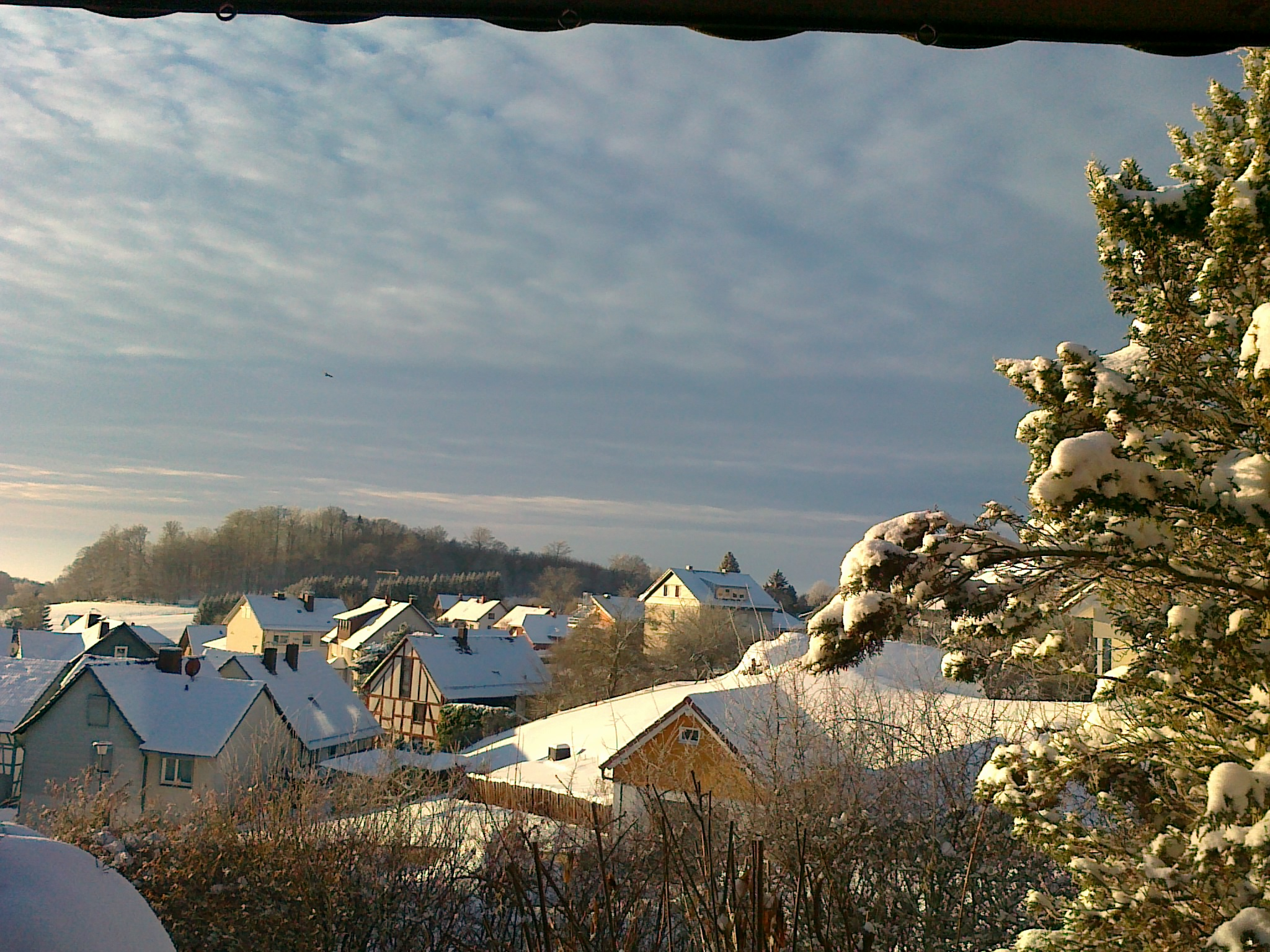 Ermetheis at winter.